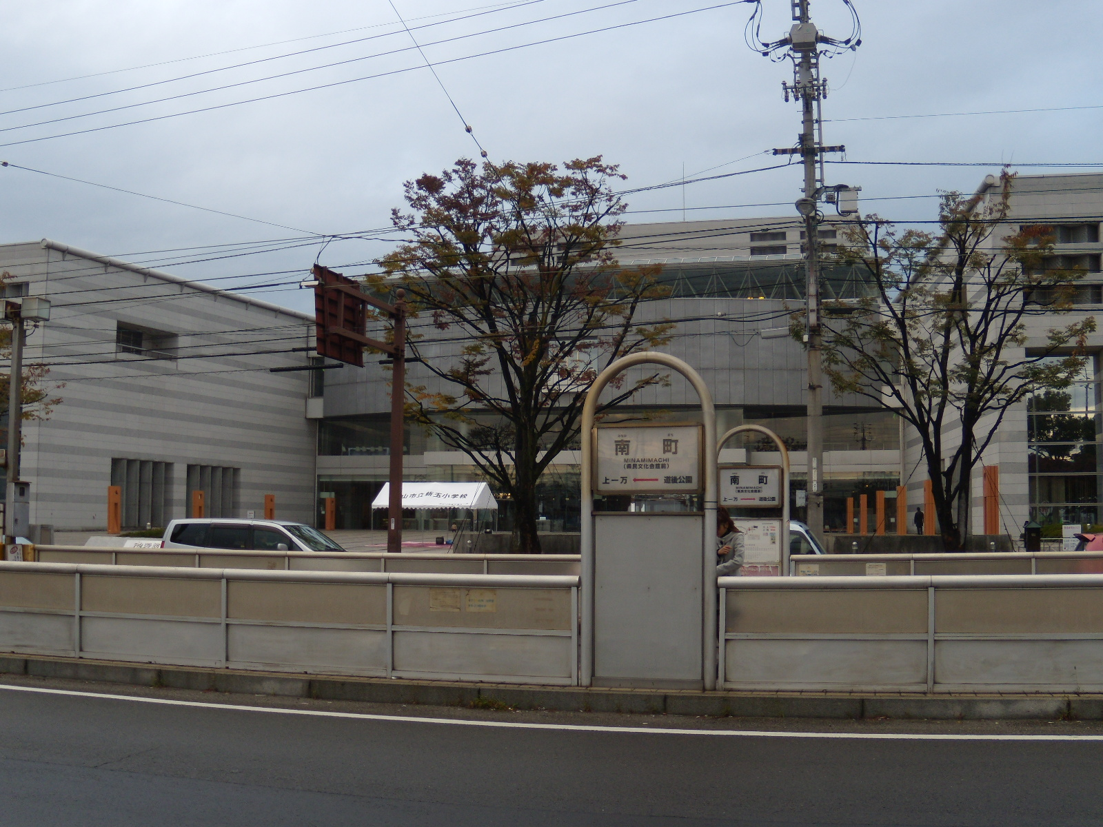 Iyo Railway Minamimachi Station